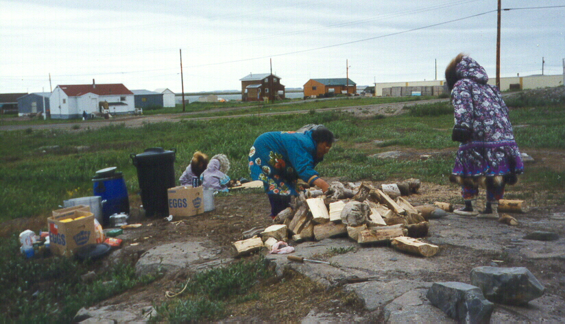 Inuit women preparing to make bannock. From the late 1970's or early 1980's.